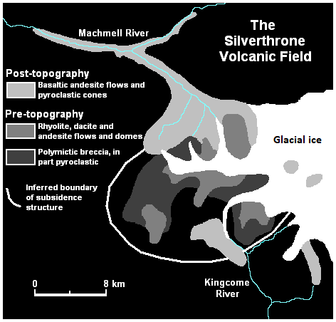 Map of the Silverthrone Volcanic Field in southwestern British Columbia, Canada.